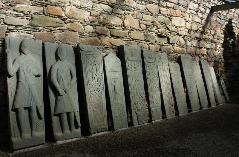 Kilmory Knap Chapel, Argyll and Bute, Scotland - interior